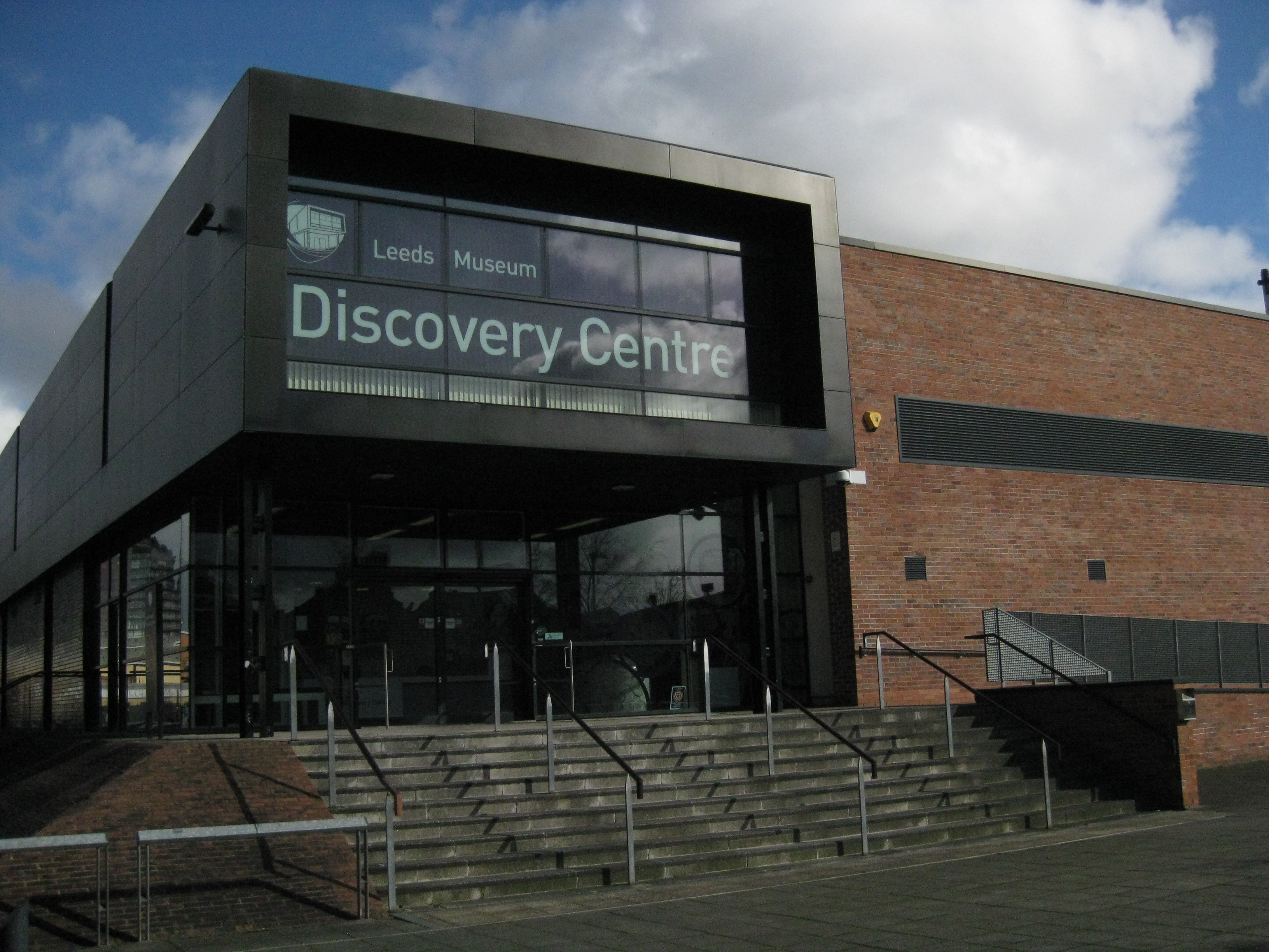 Leeds Museum Discovery Centre, Carlisle Road, Leeds LS10 1LB